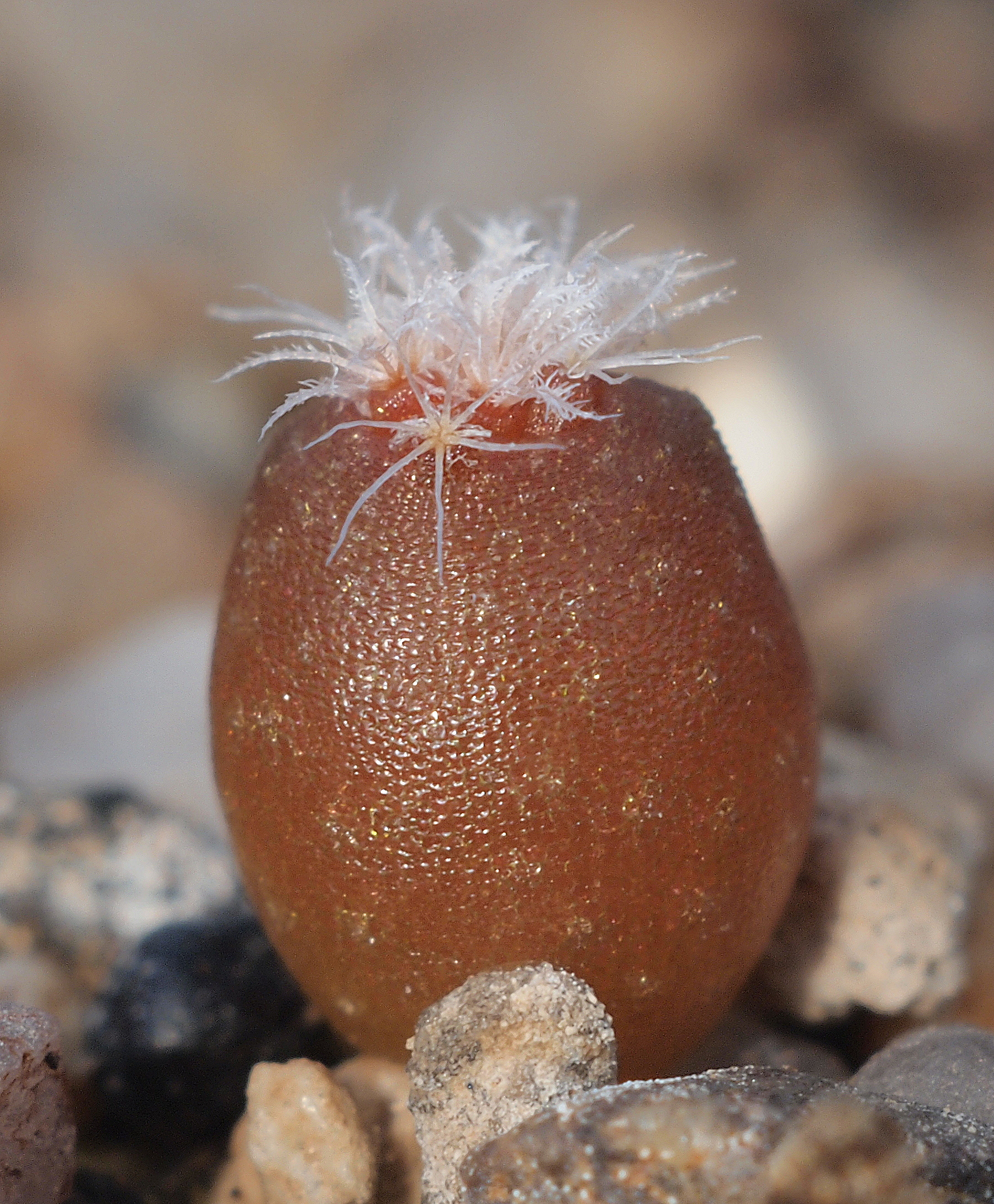 Epithelantha micromeris